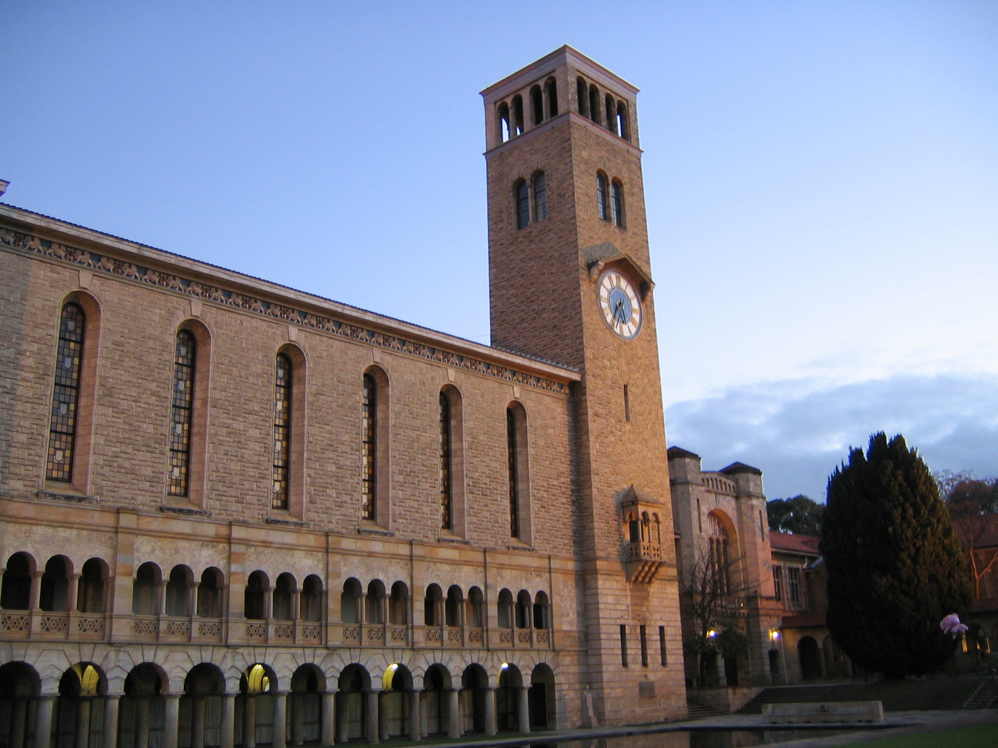 Winthrop Hall at sunset, University of Western Australia, Crawley, Western Australia.